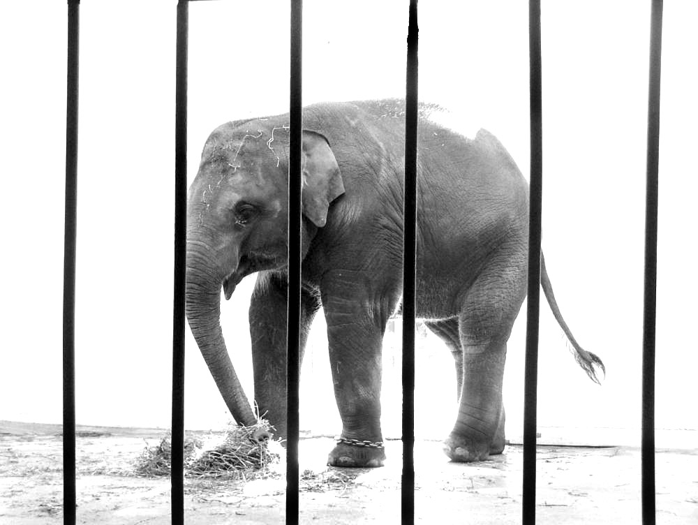 While an animal is in captivity it is imprisoned, it is not in the wild free to do what it wants and must live by the rules of humans.